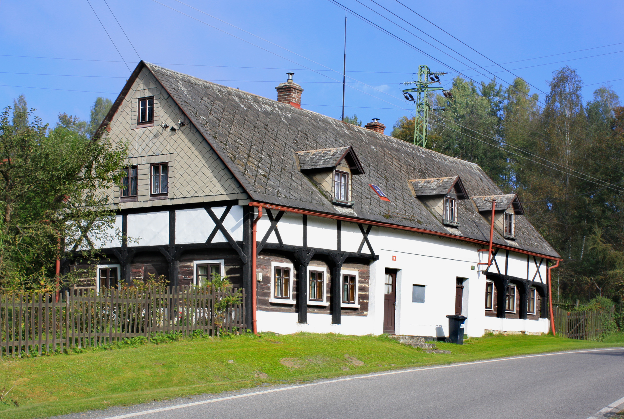 Upper part of Dolní Vítkov, part of Chrastava, Czech Republic